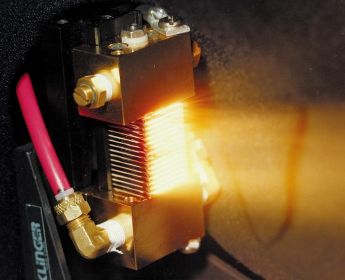 Image of a high power laser diode array firing from LLNL document "Laser Programs, the first 25 years". [1]